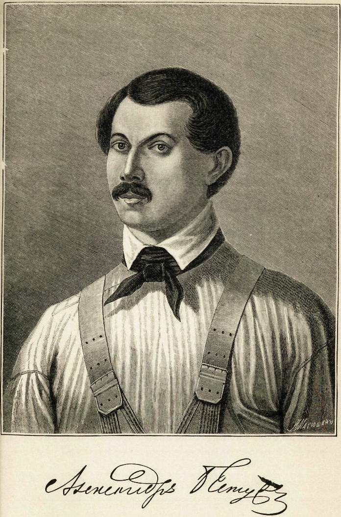 Aleksandr Bestuzhev